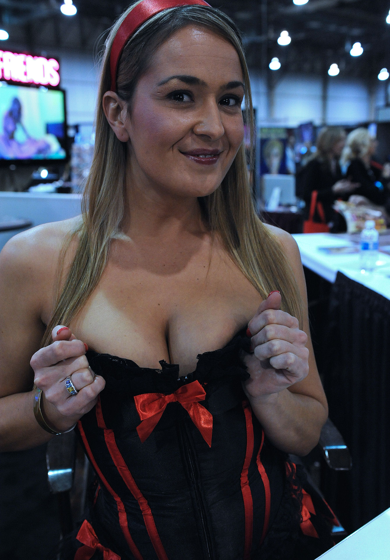 Photo of Elexis Monroe (aka Savannah James) at the Adult Entertainment Expo 2011